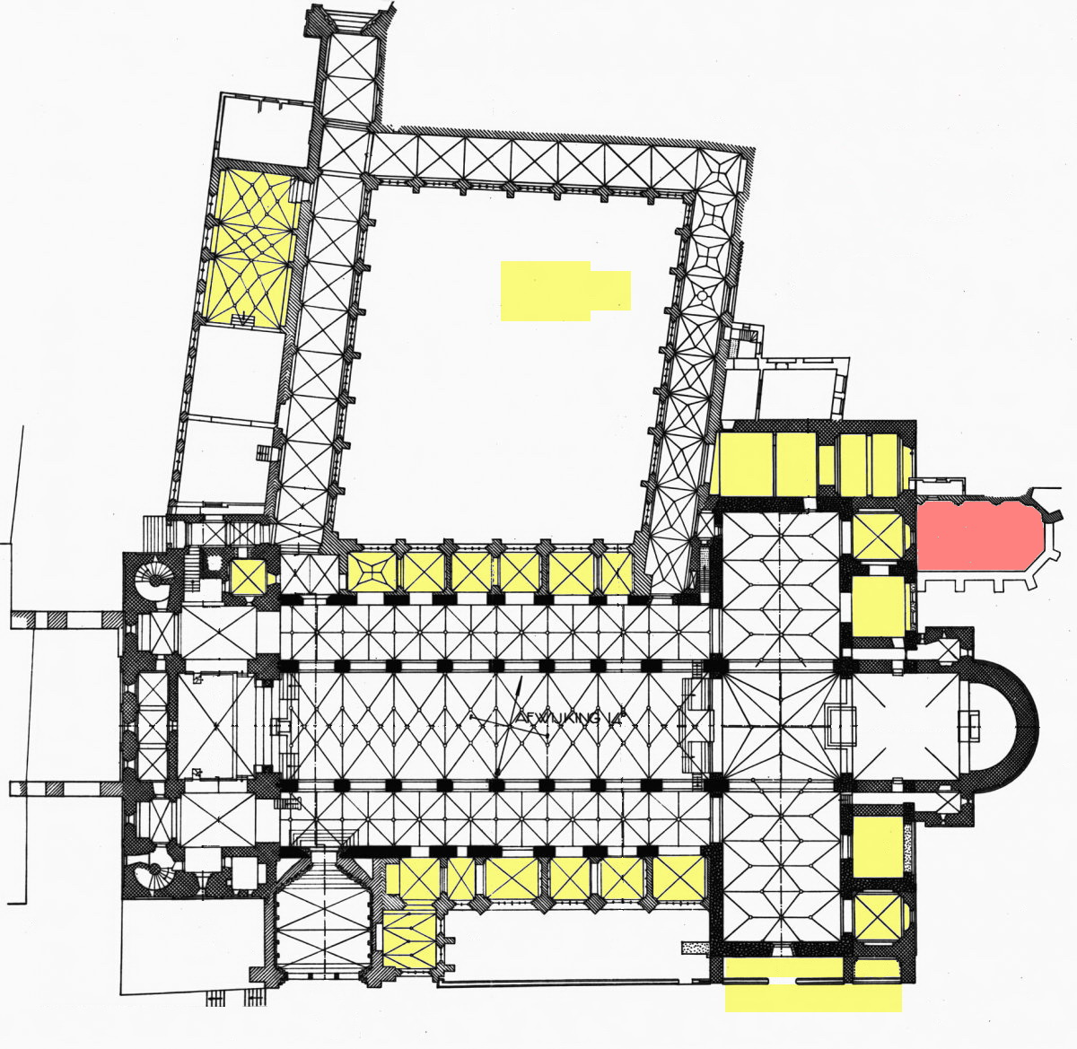 Locator map of chapels of the Basilica of Saint Servatius in Maastricht, the Netherlands. This map by an unknown author was first published in 1926 in Van Nispen tot Sevenaers De monumenten in de gemeente Maastricht, Deel 1, and donated to Wiki Commons by Rijksdienst voor het Cultureel Erfgoed on 7 January 2013. All colouring and other edits are by Kleon3. In yellow all 17 chapels of Sint-Servaasbasiliek in past and present. In red the so-called Koningskapel of Chapel Royale, an extension of the transept chapels (largely demolished in 1804).